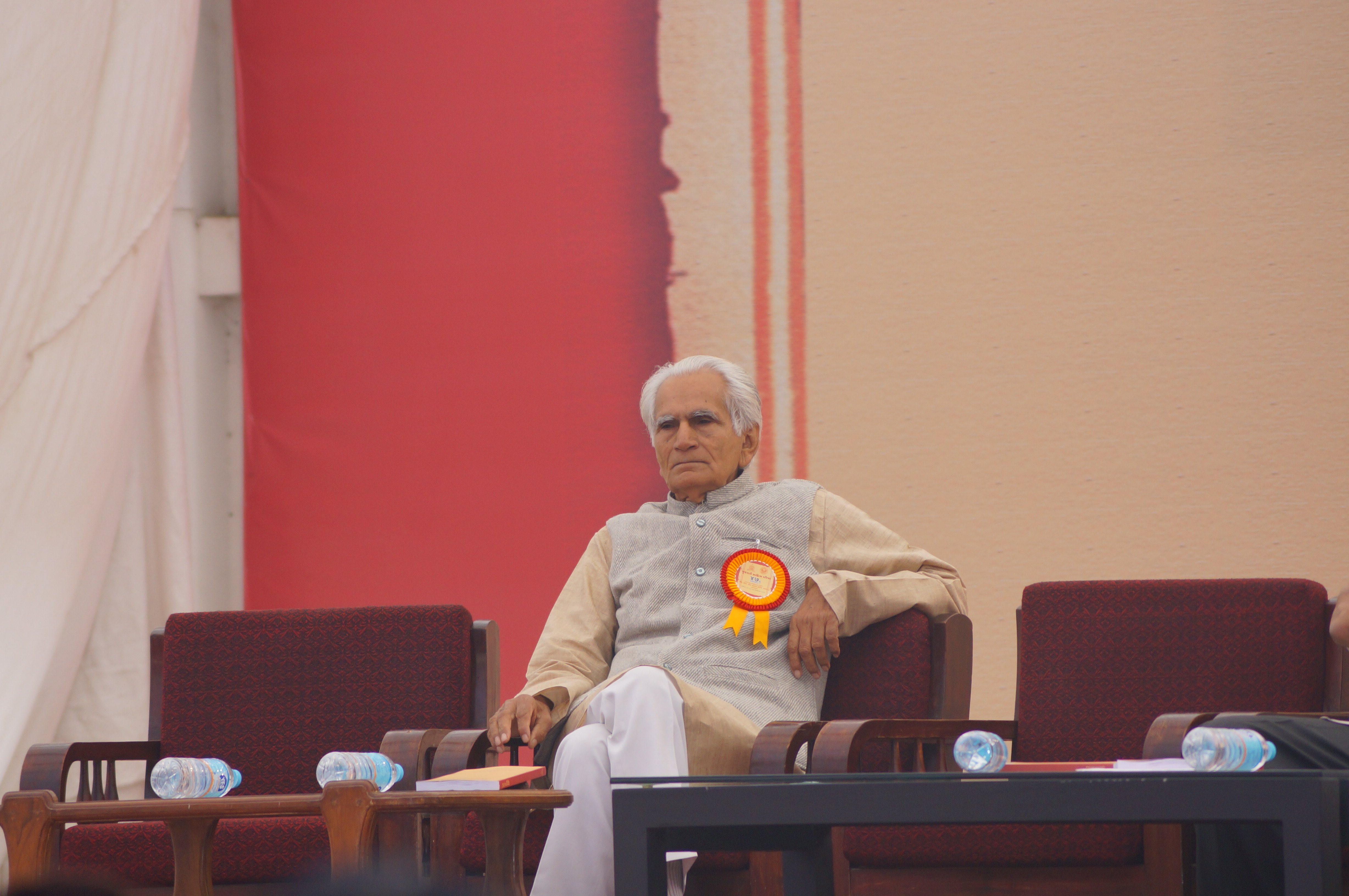 GSP 47th Adhiveshan - Day 3 - 5th Meet and Closing, Raghuveer Chaudhari